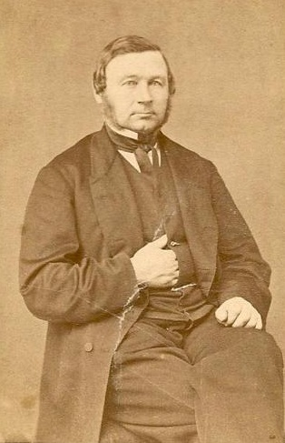 Swedish politician from late nineteenth century